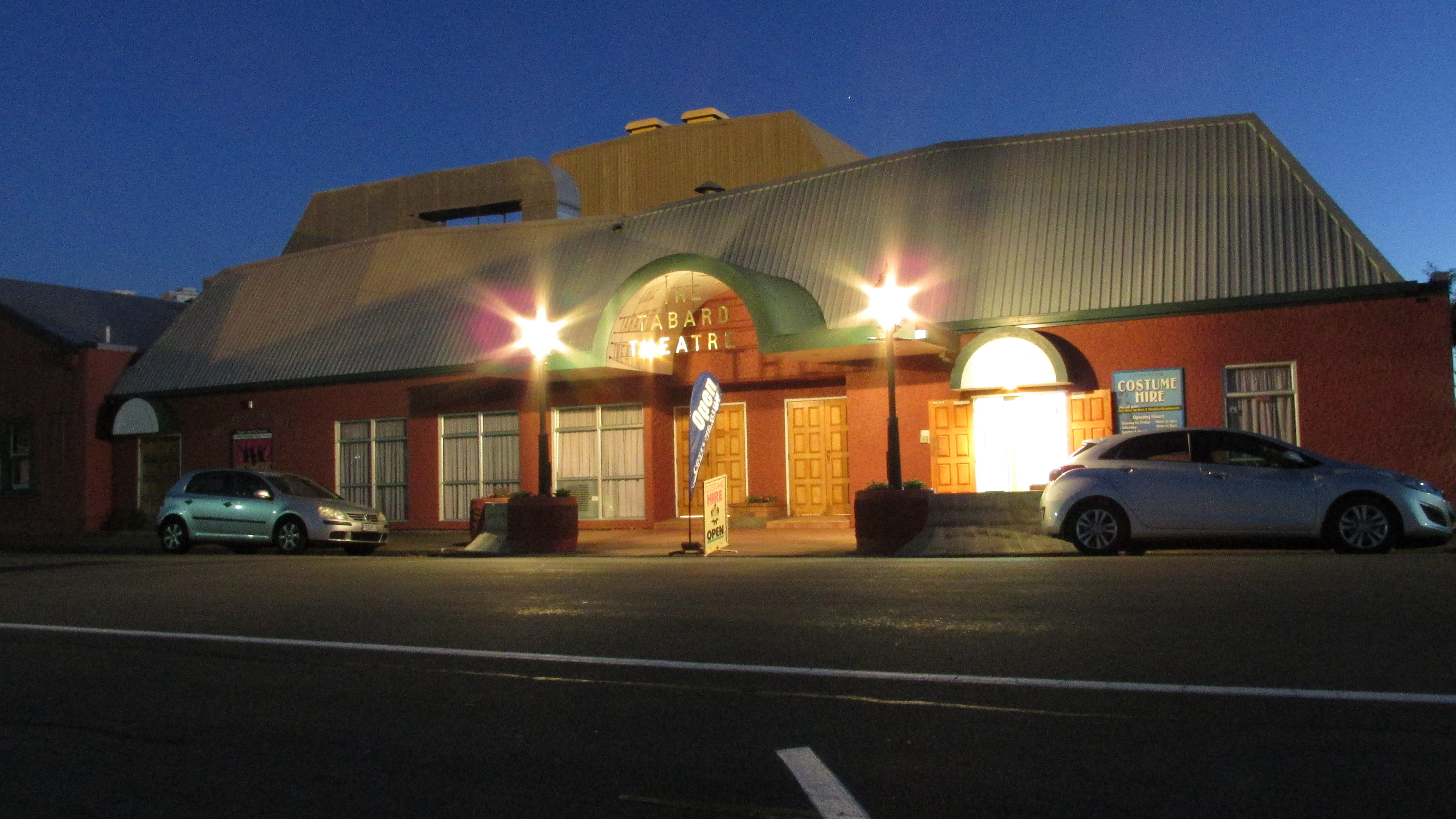 The Tabard Theatre, Coronation Street, Napier, at night.